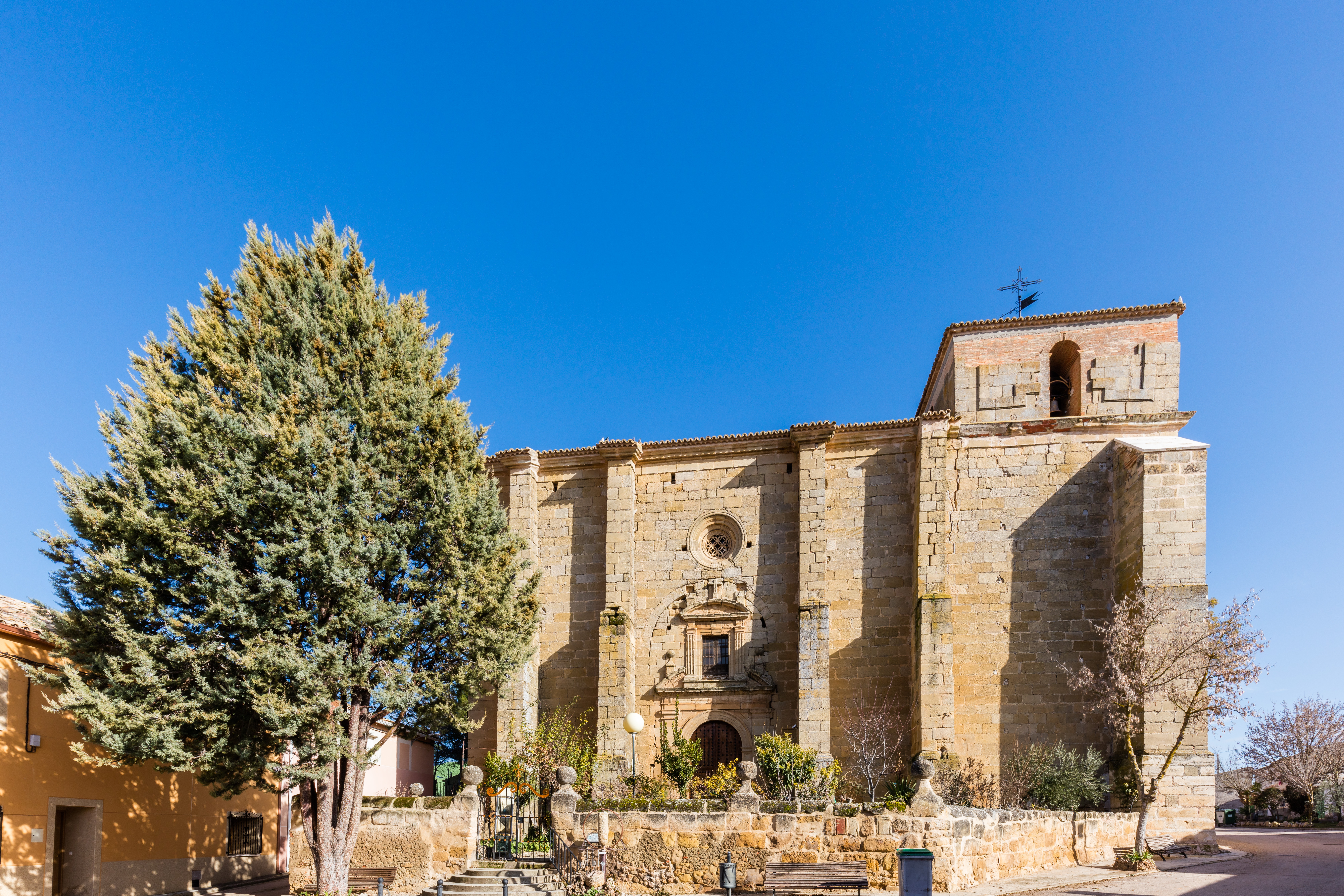 Church of Our Lady of Sagrario, Garcinarro, El Valle de Altomira, Cuenca, Spain